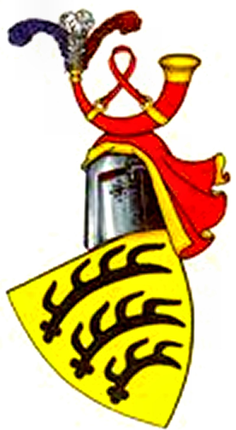 Coat of Arms of the County Württemberg